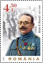 Radu R. Rosetti